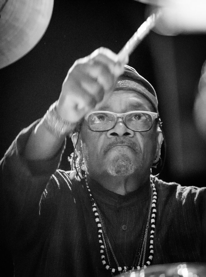 Don Moye with Art Ensemble of Chicago at the stage of Energimølla. The concert was part of Kongsberg Jazzfestival and took place on 07. July 2017.Lineup: Roscoe Mitchell (saxophone), Hugh Ragin (trumpet), Jaribu Shahid (double bass), Don Moye (drums)